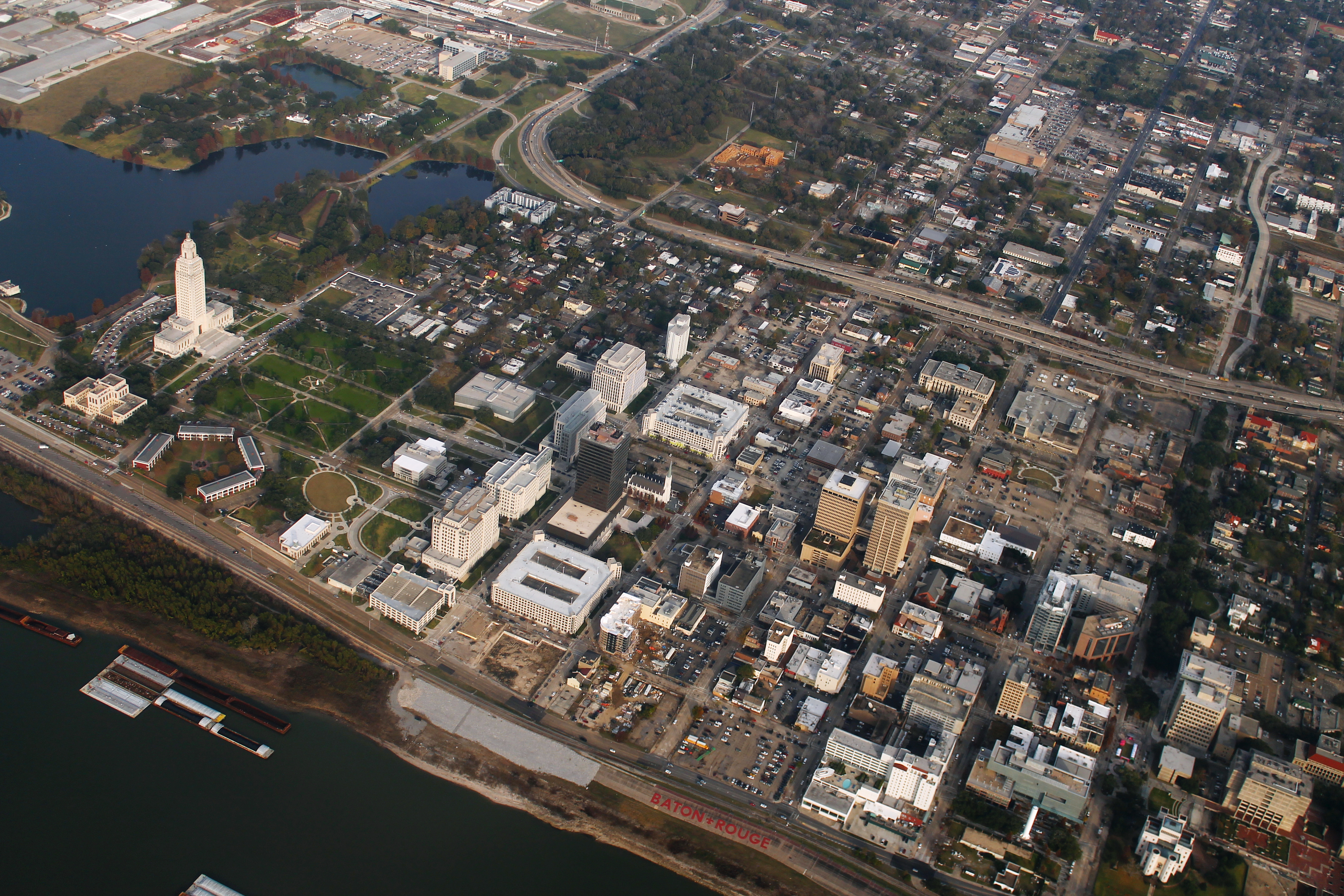 An aerial view of downtown Baton Rouge, Louisiana, including the Louisiana State Capitol at left and the Old Capitol Building at bottom right. Photo taken from N401EA after take-off from Baton Rouge Metropolitan Airport.